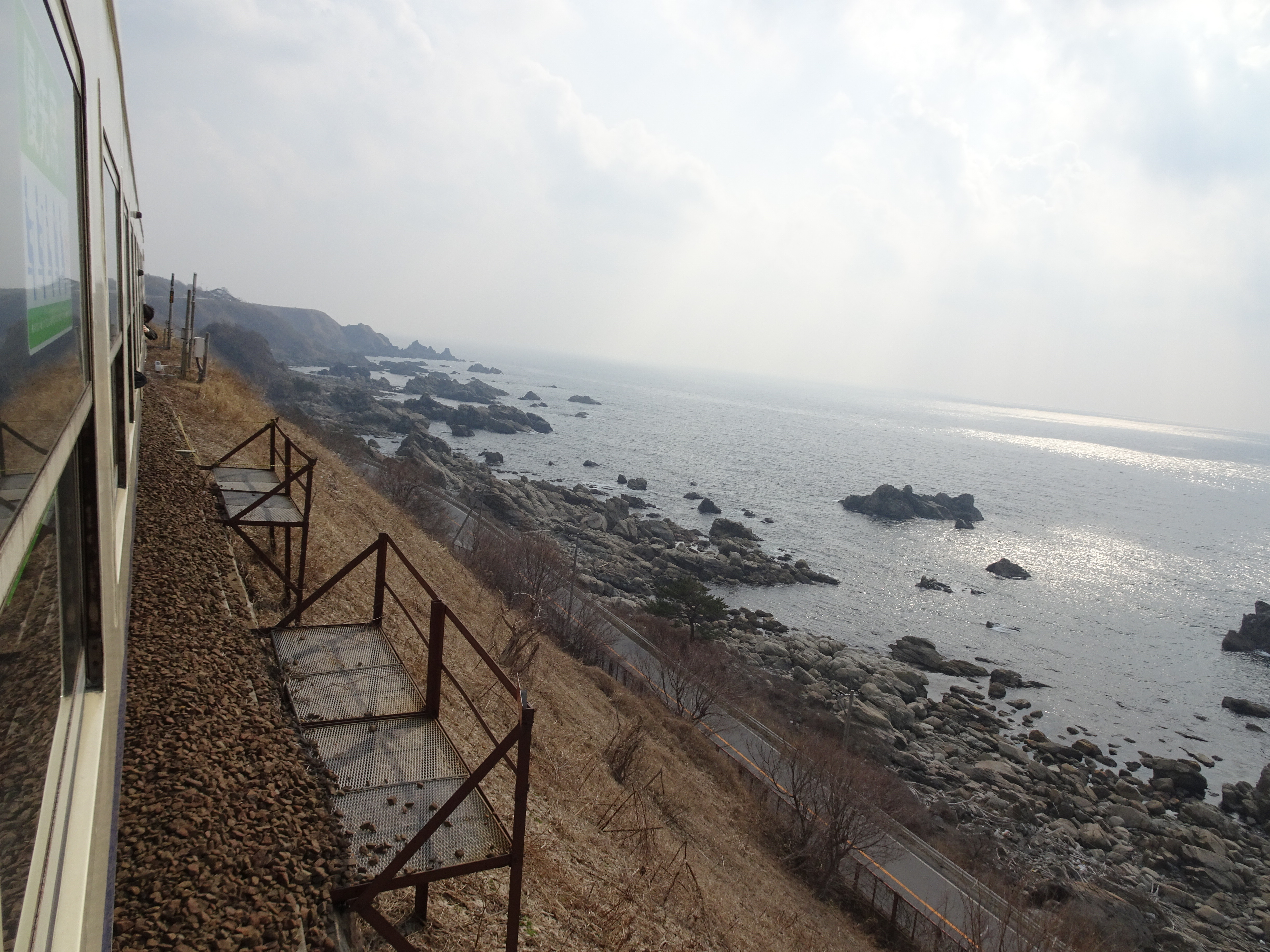 The view from a train on the JR Gonō Line in Akita Prefecture